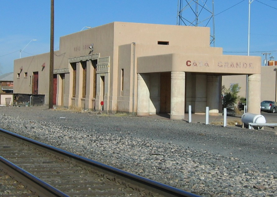 Former Southern Pacific station in Casa Grande, AZ. Built in 1940, destroyed by fire on June 5, 2009.Date 12 December 2006, 10:59Source Casa Grande, AZ train station (destroyed by fire 6/09)Author Ron Reiring from Inland Empire of Southern California, USA Licensing